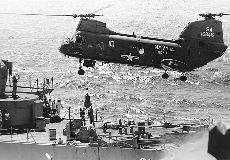 A U.S. Navy Boeing Vertol UH-46D Sea Knight helicopter (BuNo 153412) of Helicopter Combat Support Squadron 3 (HC-3) "Merlins" lowers mail to the fantail of the guided missile destroyer USS Decatur (DDG-31), during operations in the South China Sea, December 1968. The helicopter ws based aboard the fast combat support ship USS Camden (AOE-2).